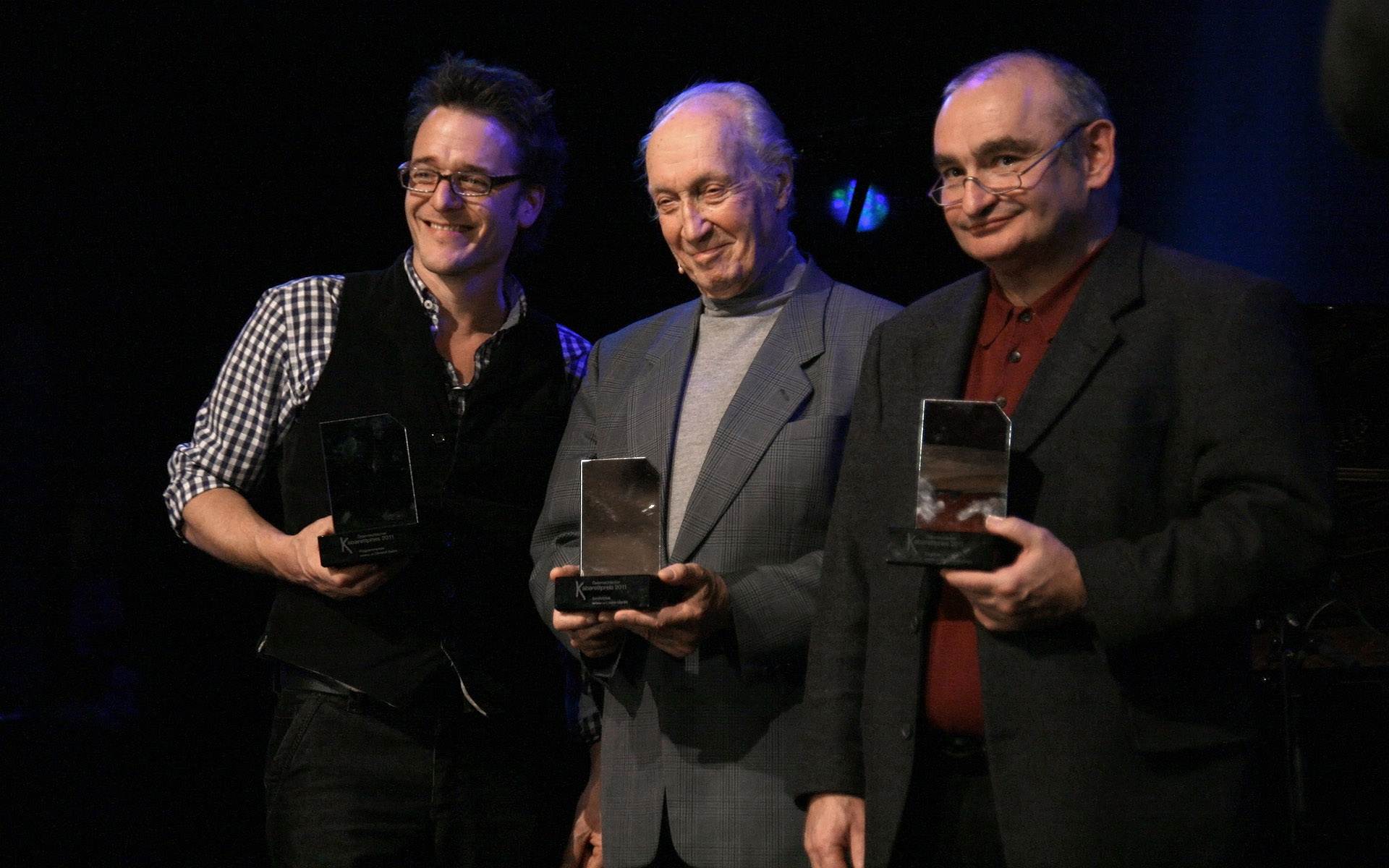 Austrian Cabaret Award (Porgy & Bess, Vienna).